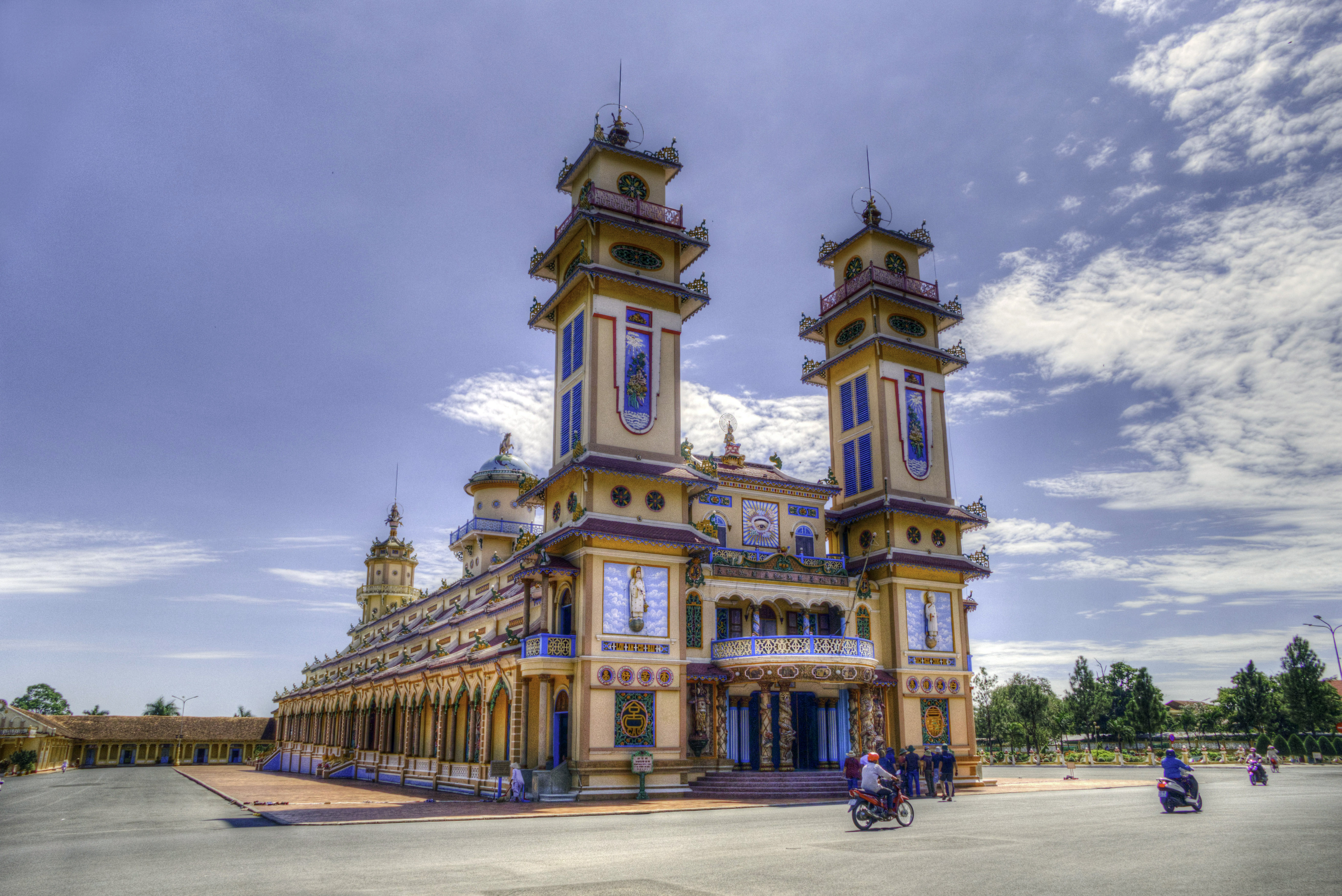 The Cao -dai Holy See - Main Temple in Tây-Ninh Province